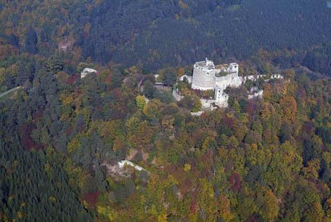 Ruine Landsee in Markt St. Martin, Austria, aerialphotography